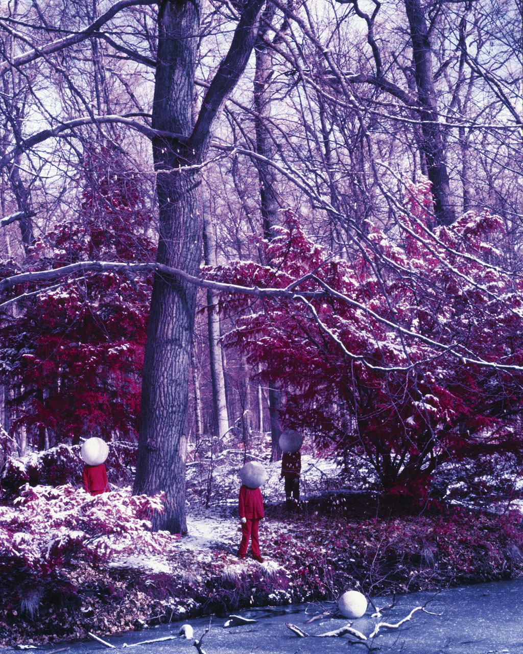 Von Monden und Pillendrehern #4 Infrared Photography Christoph Loos 2003